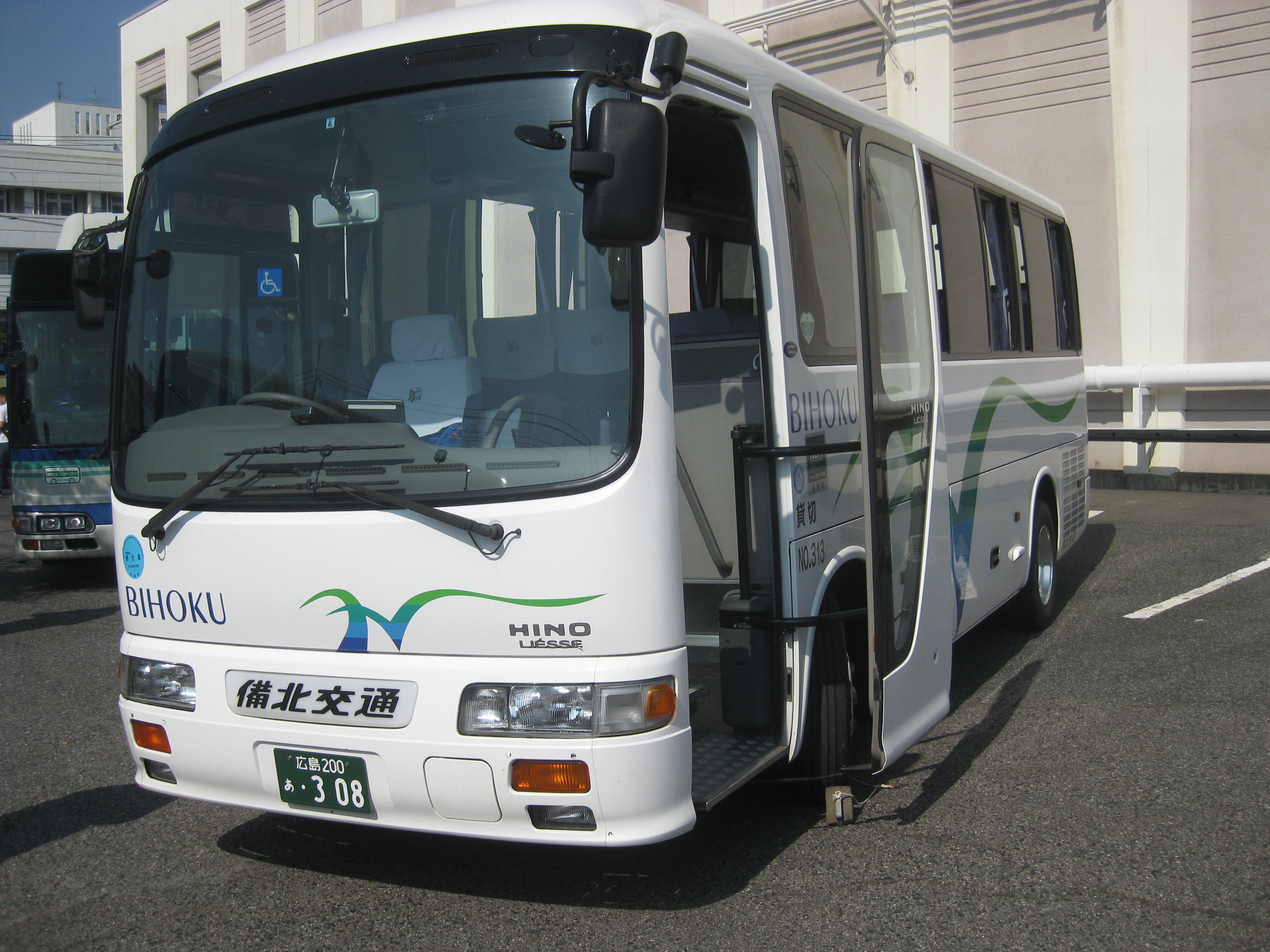 Hino Liesse of Bihoku Kotsu